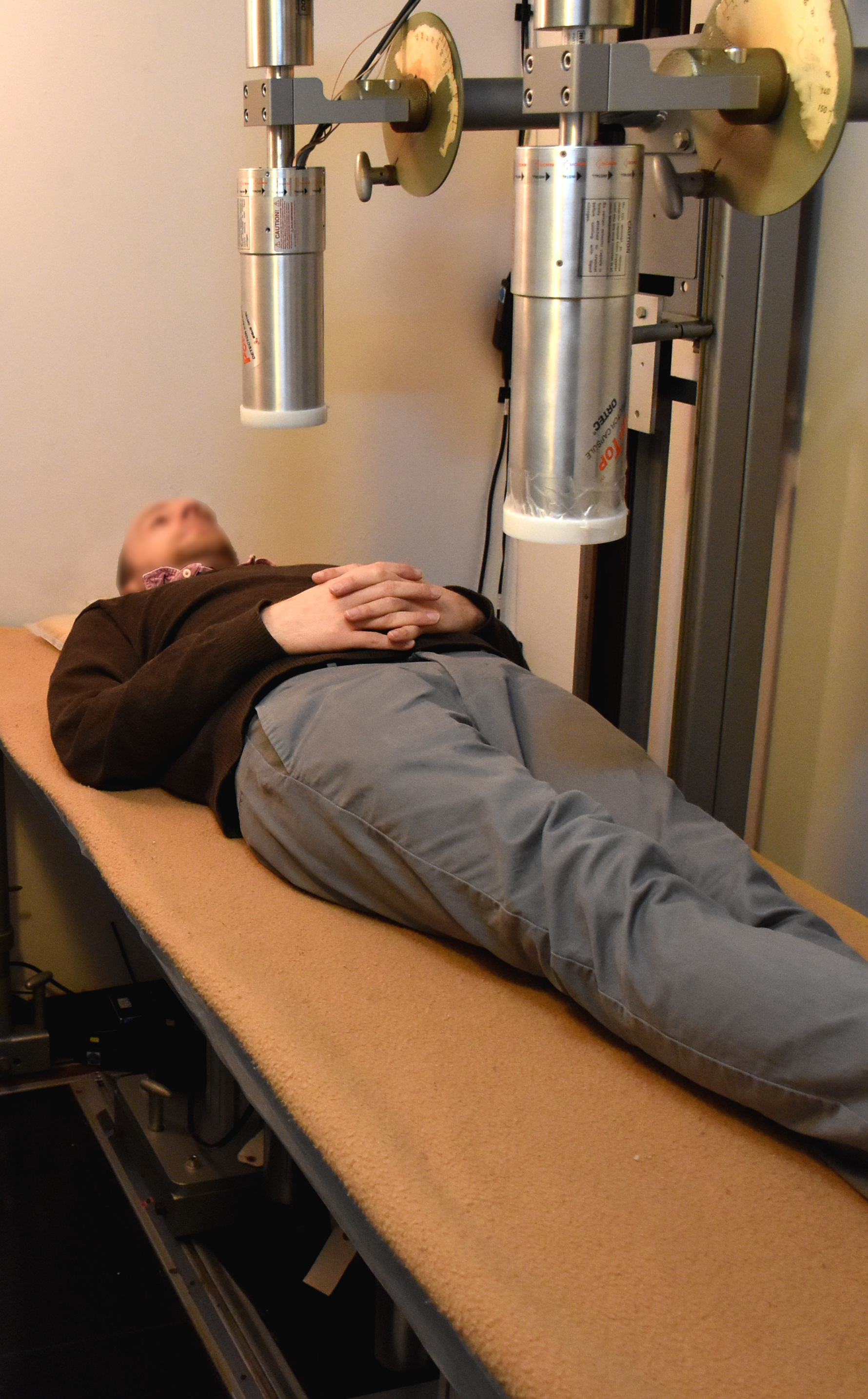 The whole-body counter is used for the bioassay monitoring of people who are occupationally exposed to ionising radiation. It makes use of four high-purity germanium detectors in a stretcher geometry.